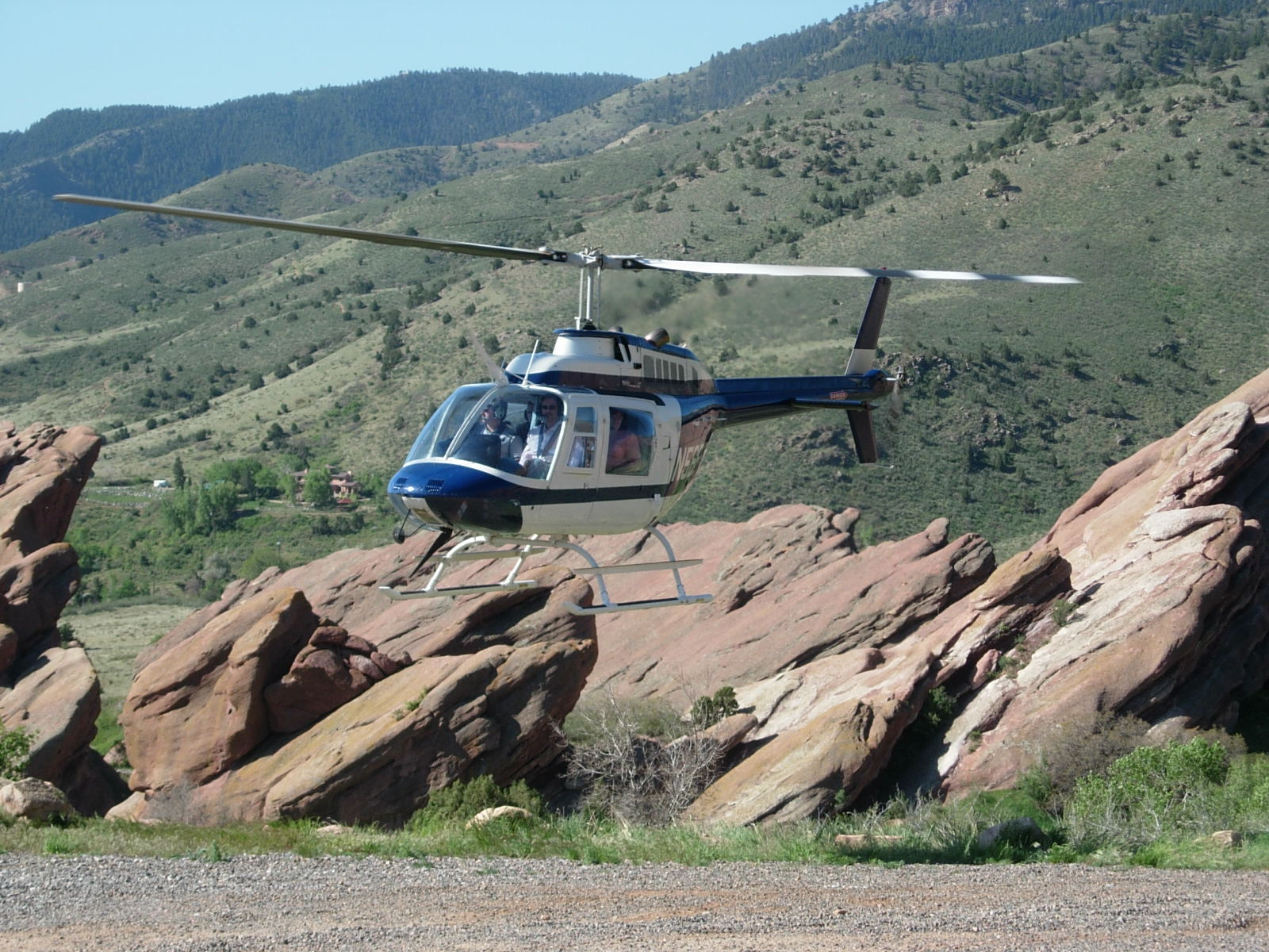 Bell 206 B3 Jetranger 'N568TD' flown by Joe Wentworth and operated by Rotors of the Rockies lands after a 5 minute pleasure flight at the Red Rocks Amphitheatre